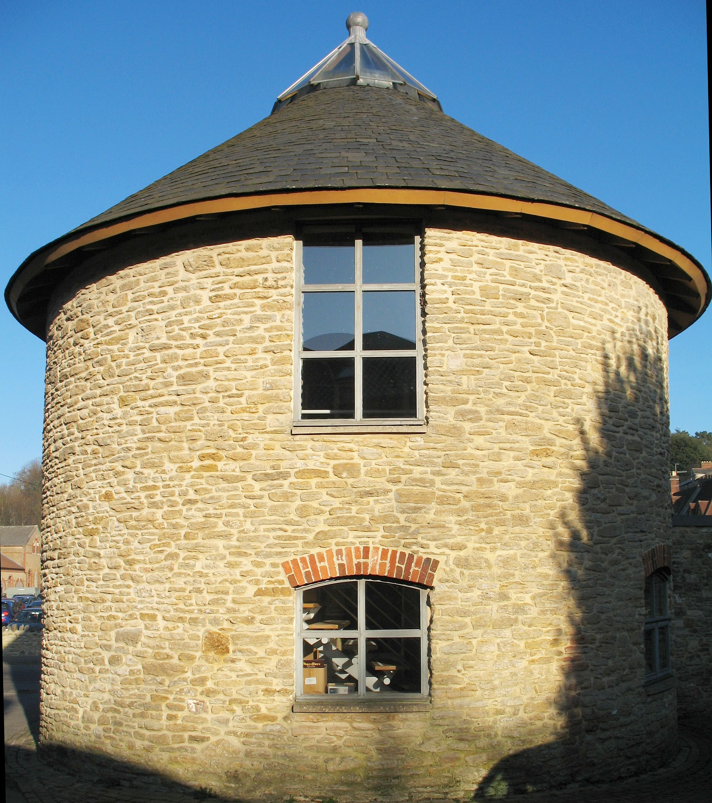 Former Dye-House now Tourist Information Centre Frome